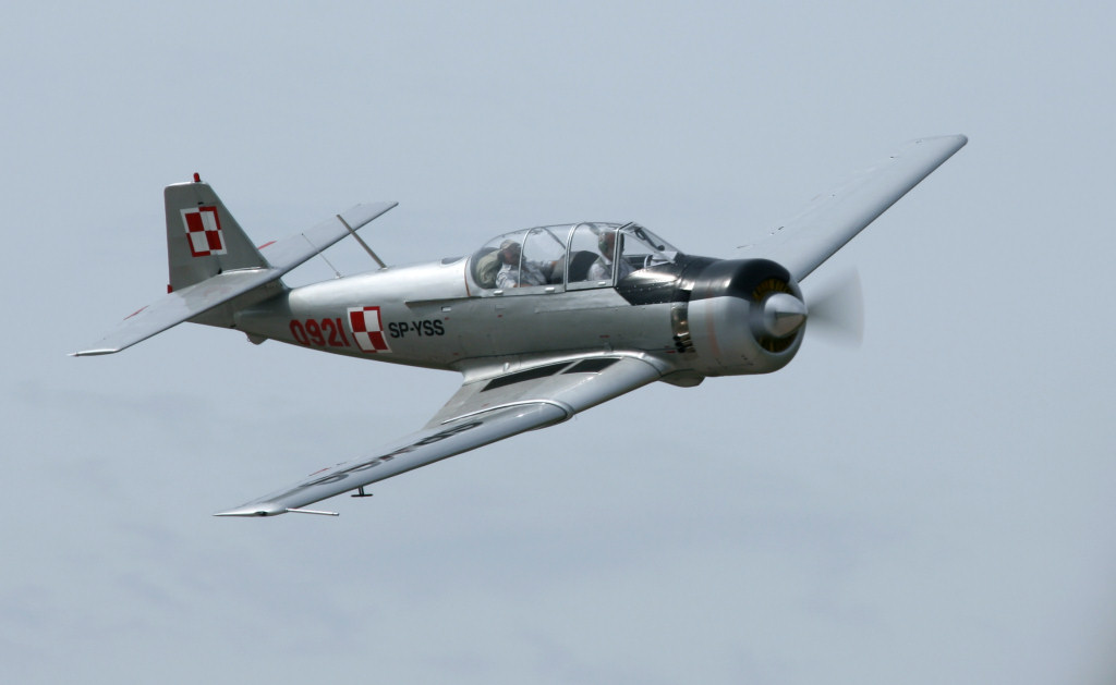 PZL TS-8 Bies. Kraków Air Show 2007.